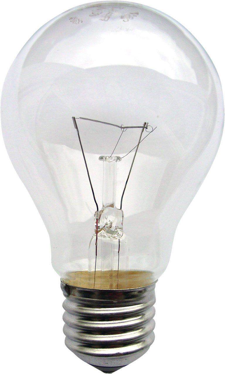 Electric bulb from Neolux (max. 230 V, 60 W, E27/ES, energyclass E) in studio